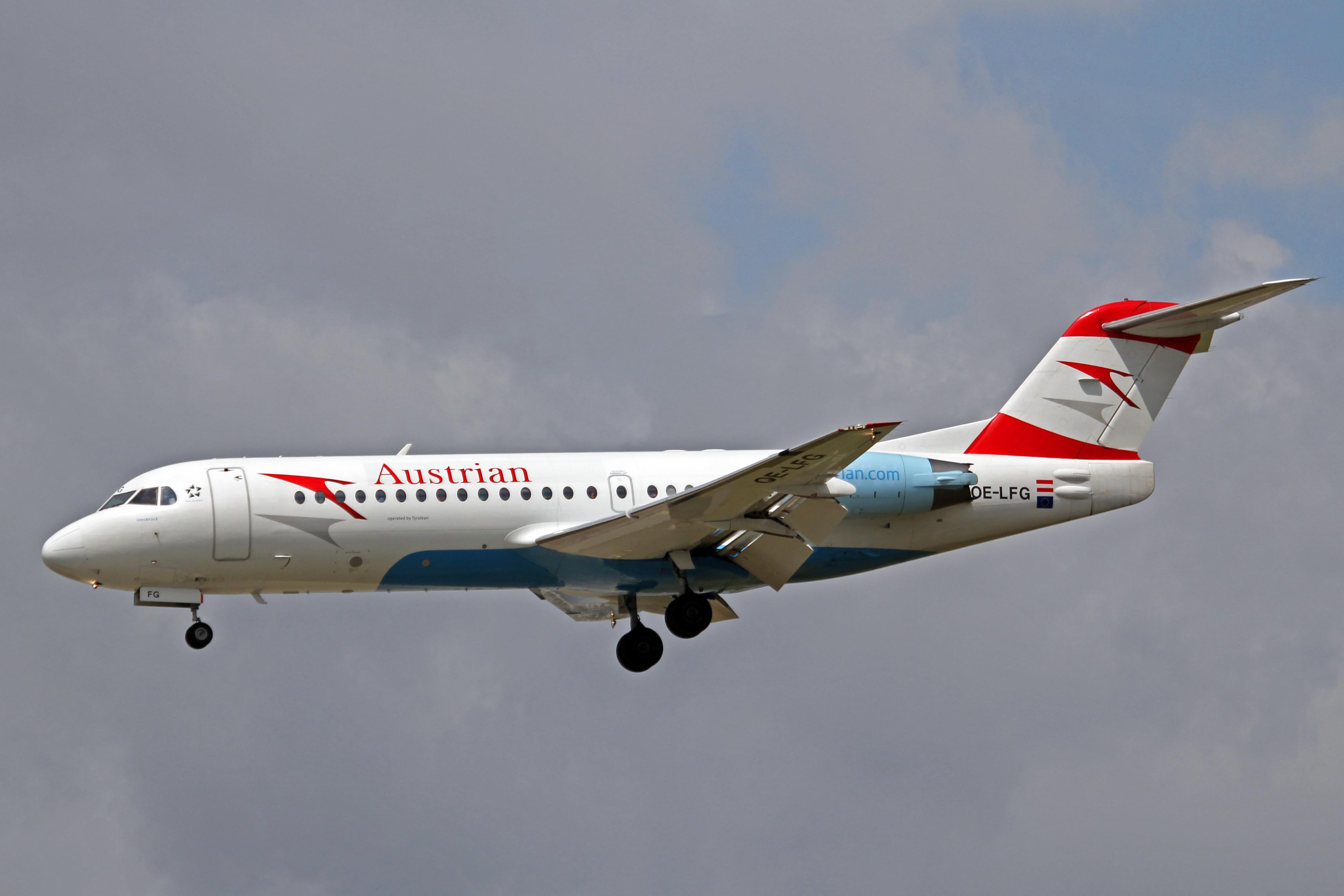 With additional small 'Operated by Tyrolean Airways' titles. 'Arrows' titles removed.